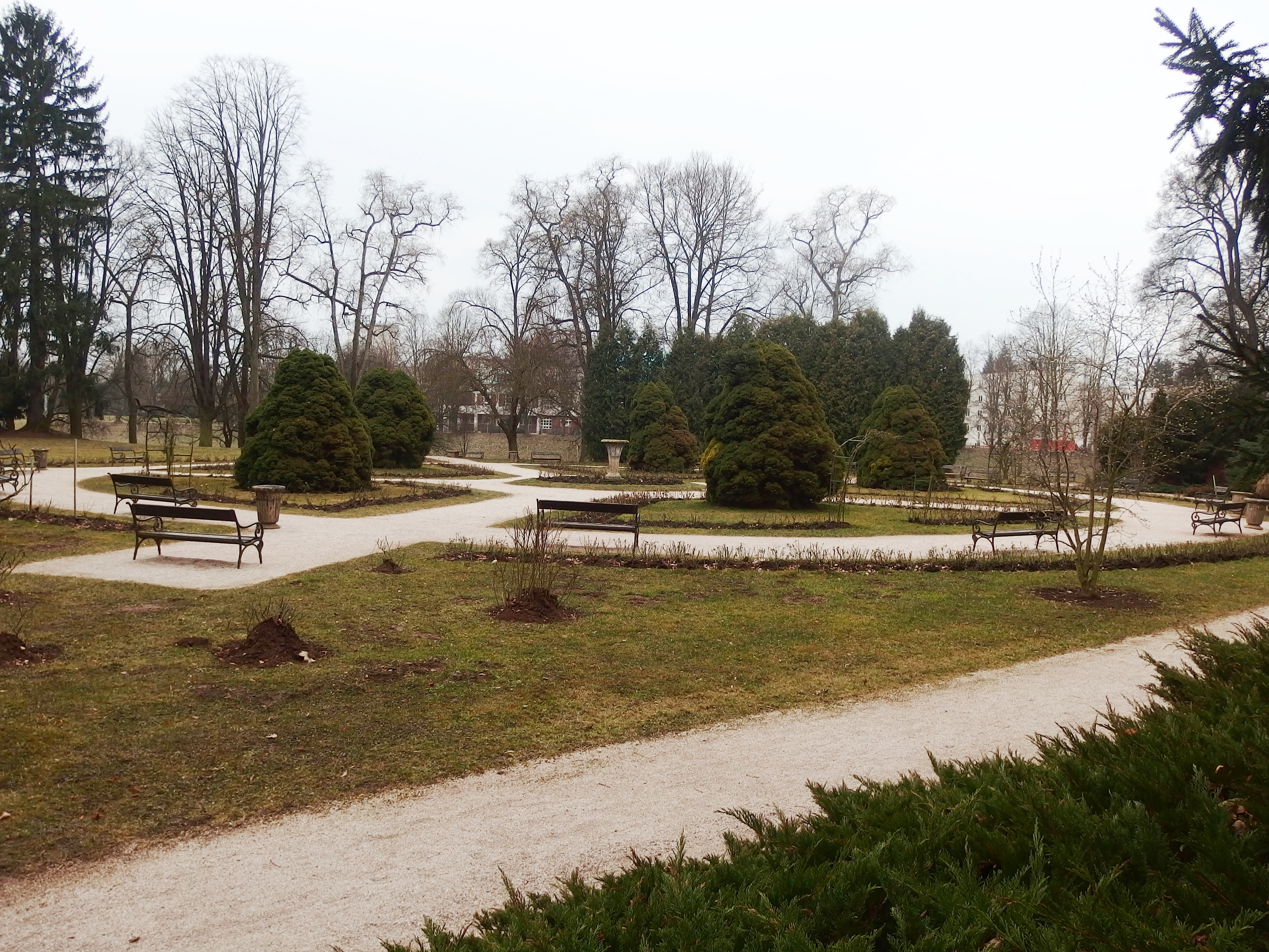 Hradec Králové, Czech Republic.